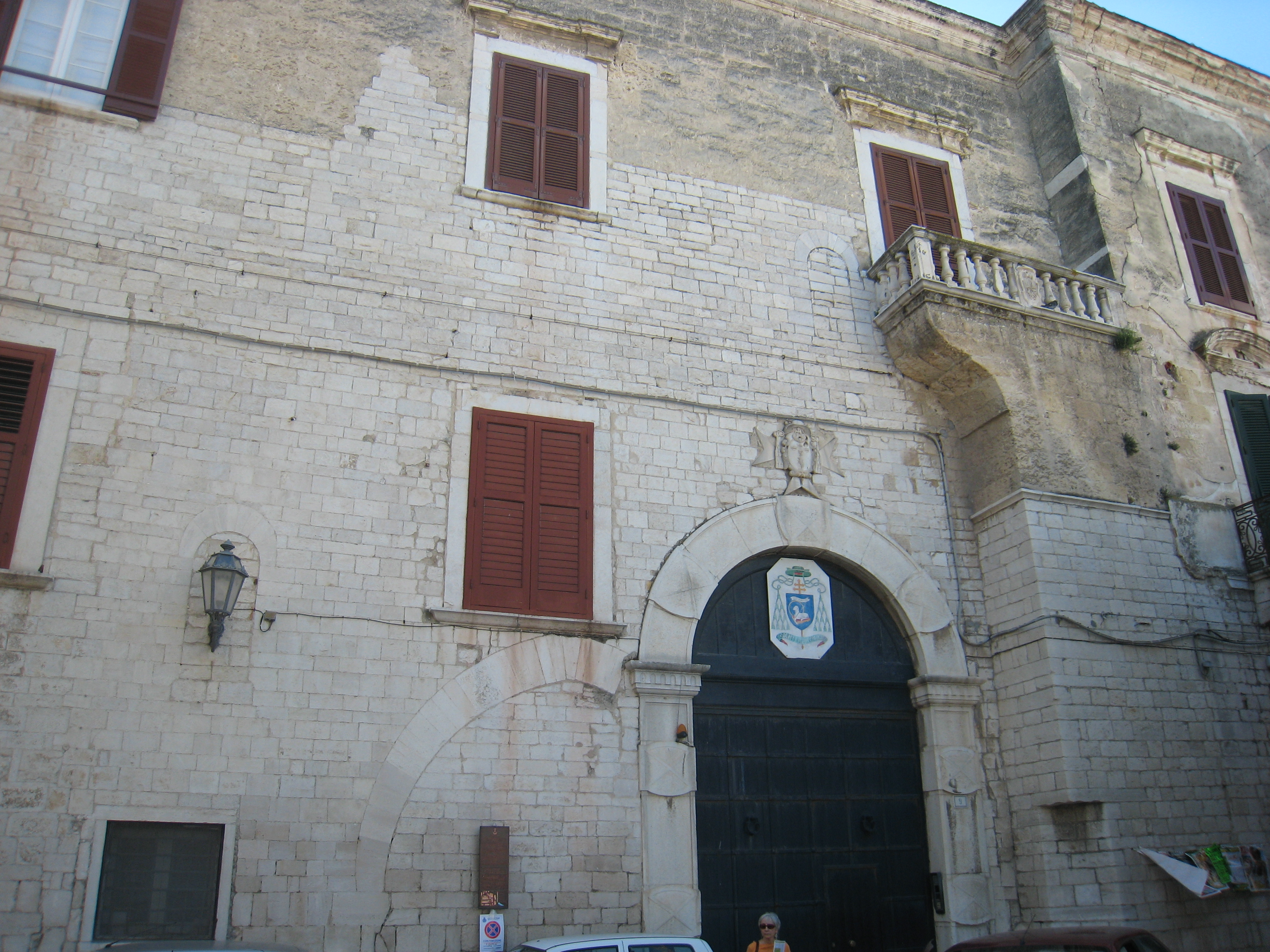 Archbishopric in Trani